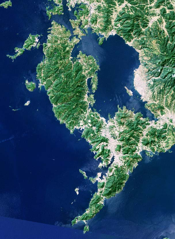 Nishisonogi Peninsula (upper) and Nagasaki Peninsula (below), Nagasaki, Japan.